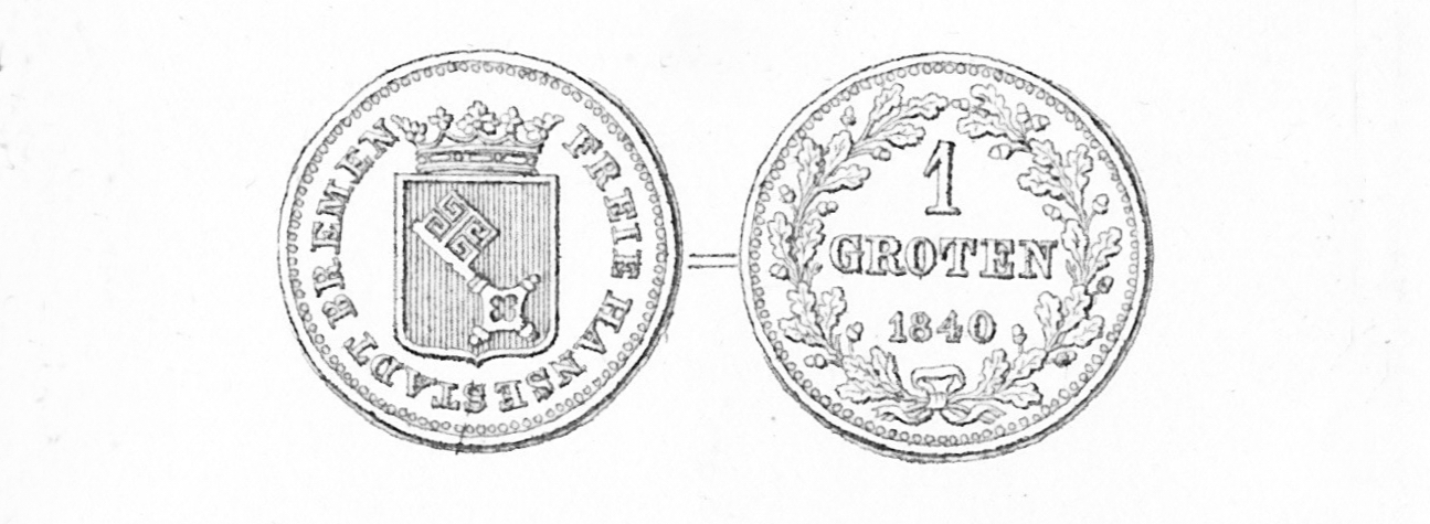 Groten, Silber, Bremen, 1840